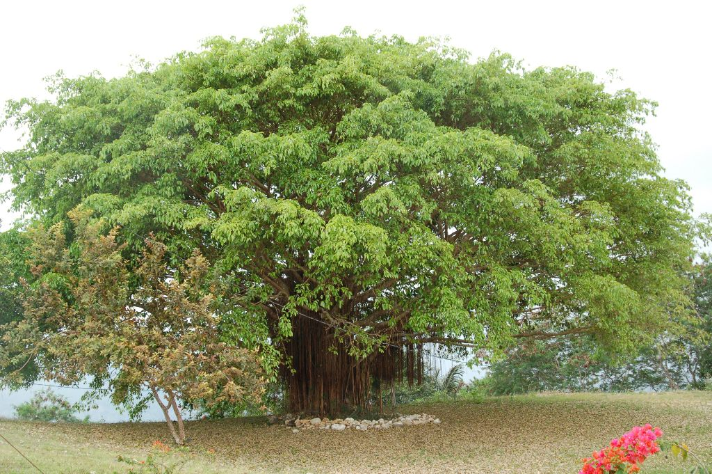 Banyan Tree in Aitara, Soibada